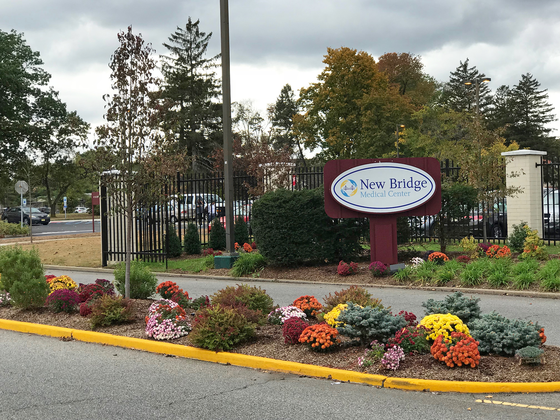 NBMC front pic